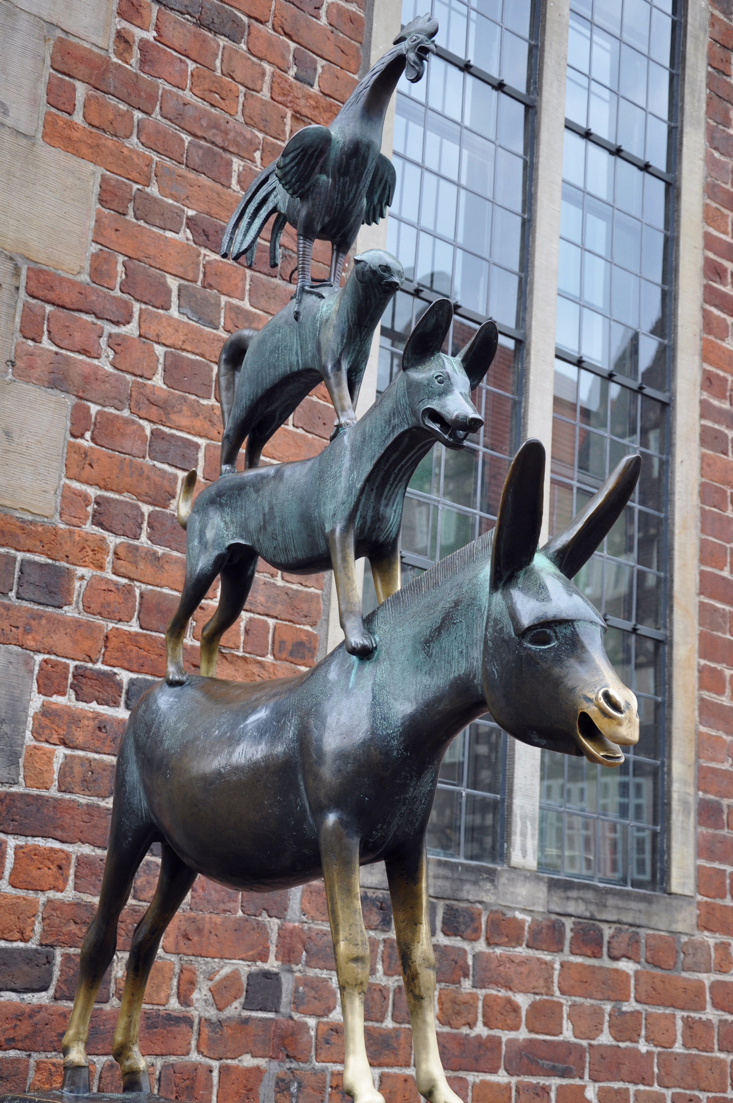 Die Stadtmusikanten (Town Musicians of Bremen)